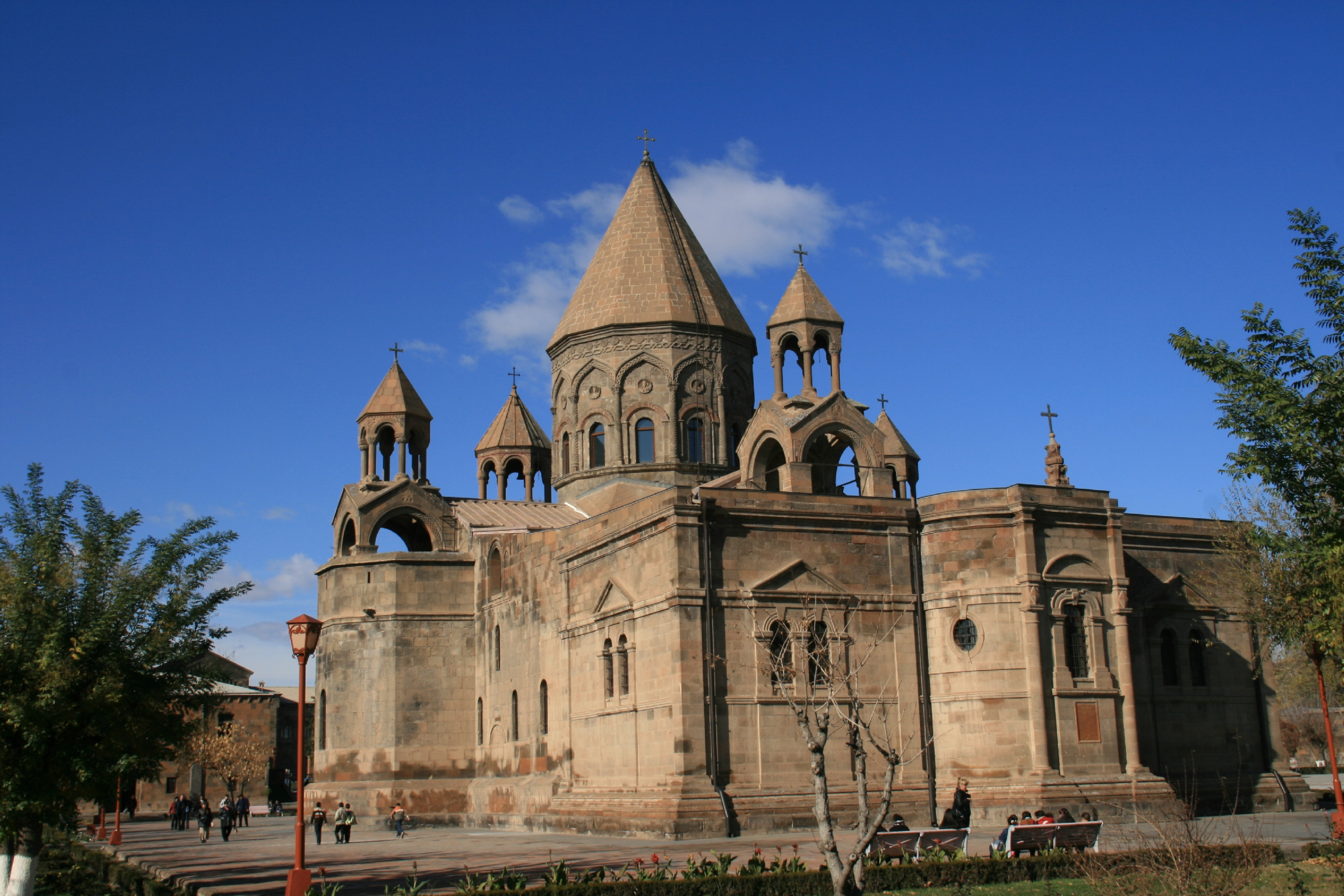 Etchmiadzin Cathedral 2/14